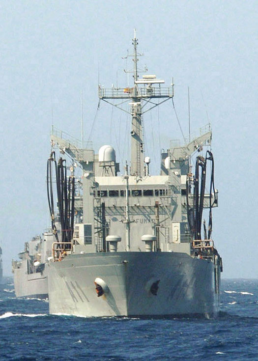 Spanish Navy (Armada Espanola) Fleet Tanker (AORL) Class SPS (Spanish Naval Ship) MARQUÉS DE LA ENSENADA (A 11) during UNITAS (United International Antisubmarine Warfare Exercise) 47-06 Atlantic Phase. UNITAS is the largest multi-national naval exercise conducted with naval forces from the US, the Caribbean Sea, and South and Central America. The exercises focus on building multinational coalitions, while promoting hemispheric defense and mutual cooperation.